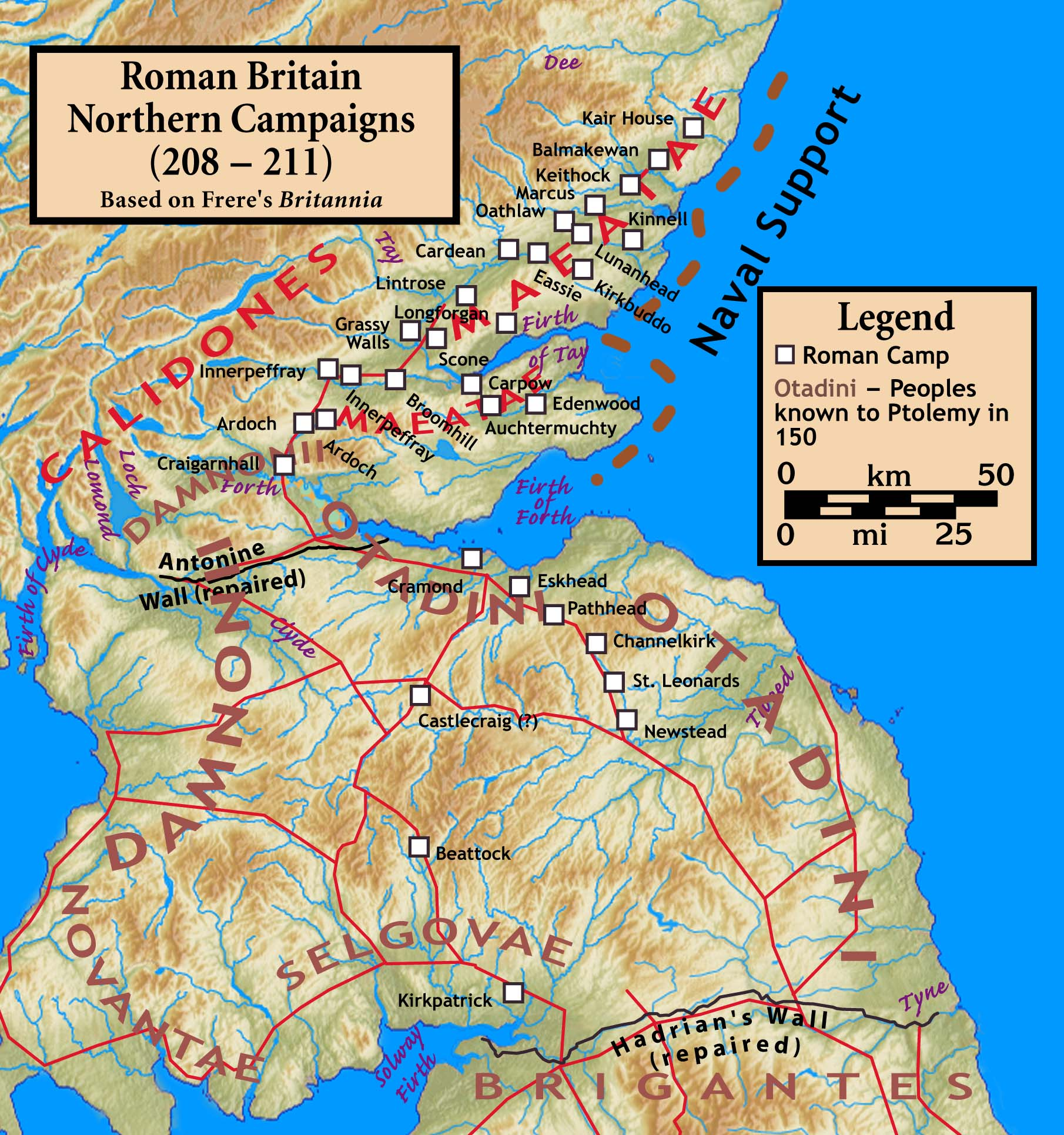 Roman Britain, Northern Campaigns (208 – 211) – The Severan Campaigns